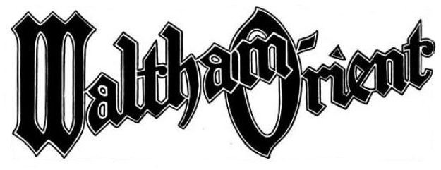 Waltham Manufacturing Company - Waltham-Orient - 1906